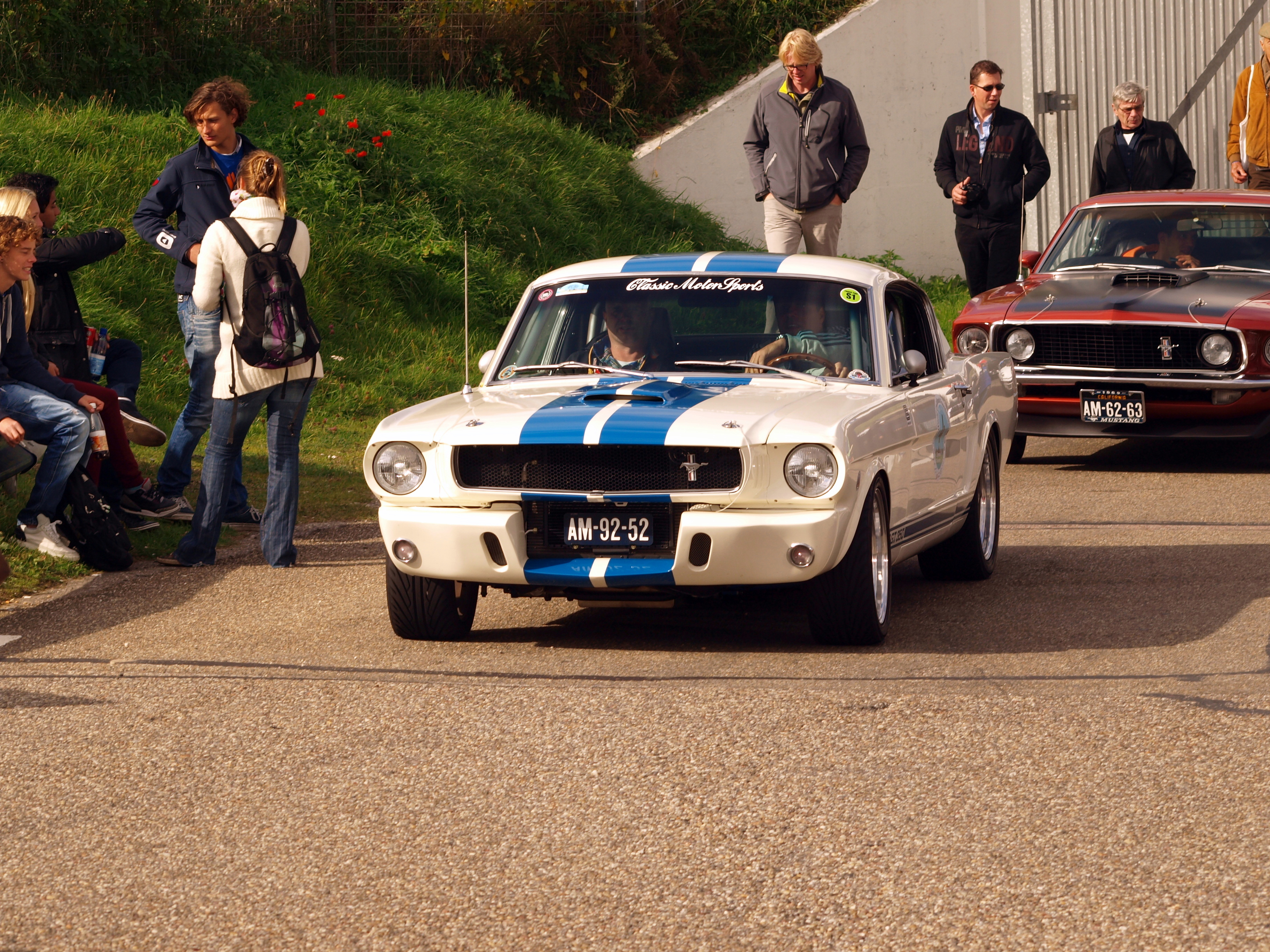 Photographed at the Nationaal Oldtimer Festival Zandvoort 2012. 1965 ford Mustang 2+2